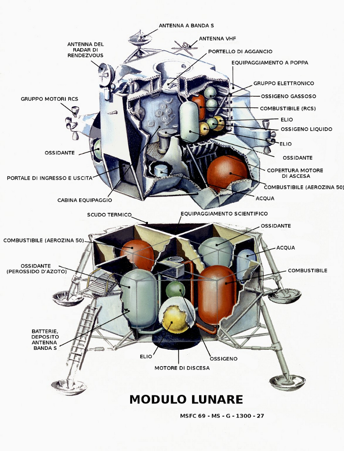 Lunar Module Illustration This concept is a cutaway illustration of the Lunar Module (LM) with detailed callouts. The LM was a two part spacecraft. Its lower or descent stage had the landing gear, engines, and fuel needed for the landing. When the LM blasted off the Moon, the descent stage served as the launching pad for its companion ascent stage, which was also home for the two astronauts on the surface of the Moon. The LM was full of gear with which to communicate, navigate, and rendezvous. It also had its own propulsion system, and an engine to lift it off the Moon and send it on a course toward the orbiting Command Module.)